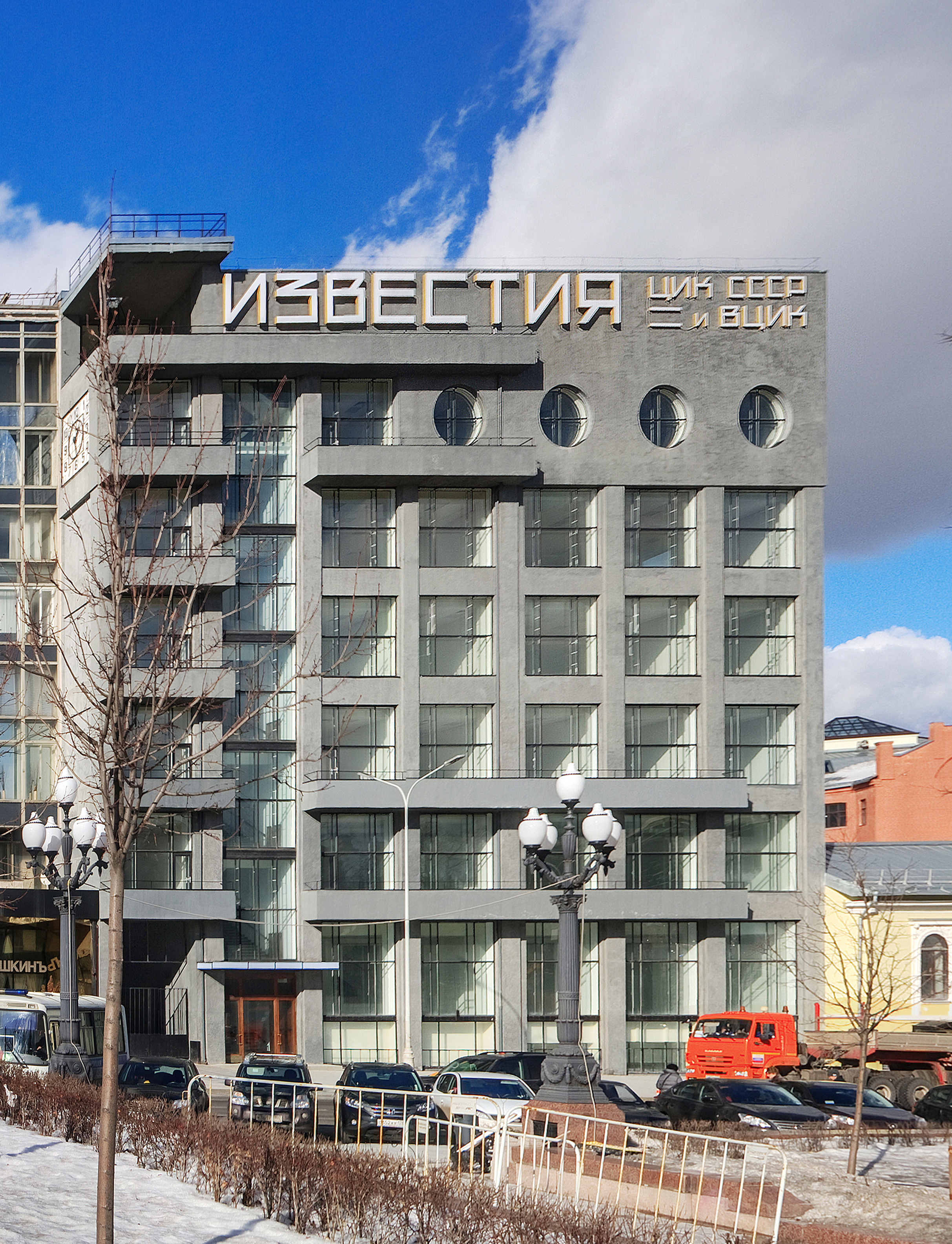 Izvestia Building, Moscow